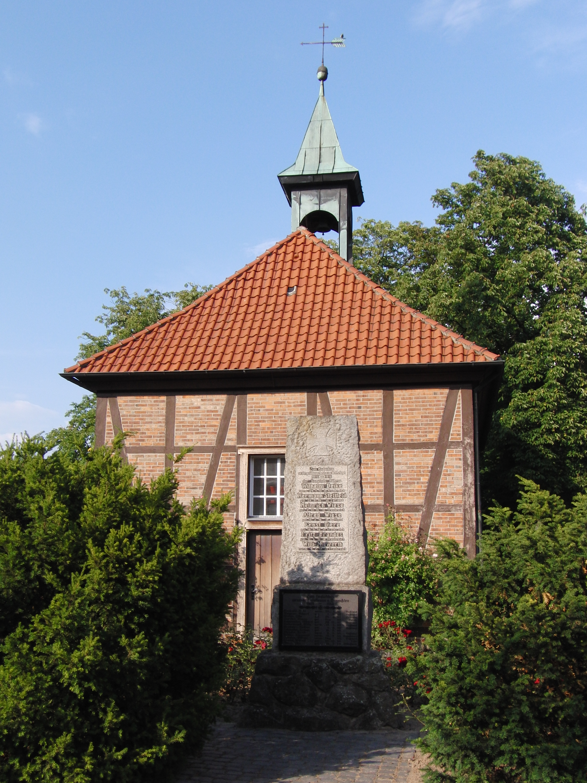 Chapel of Röhrse, Lower Saxony, Germany